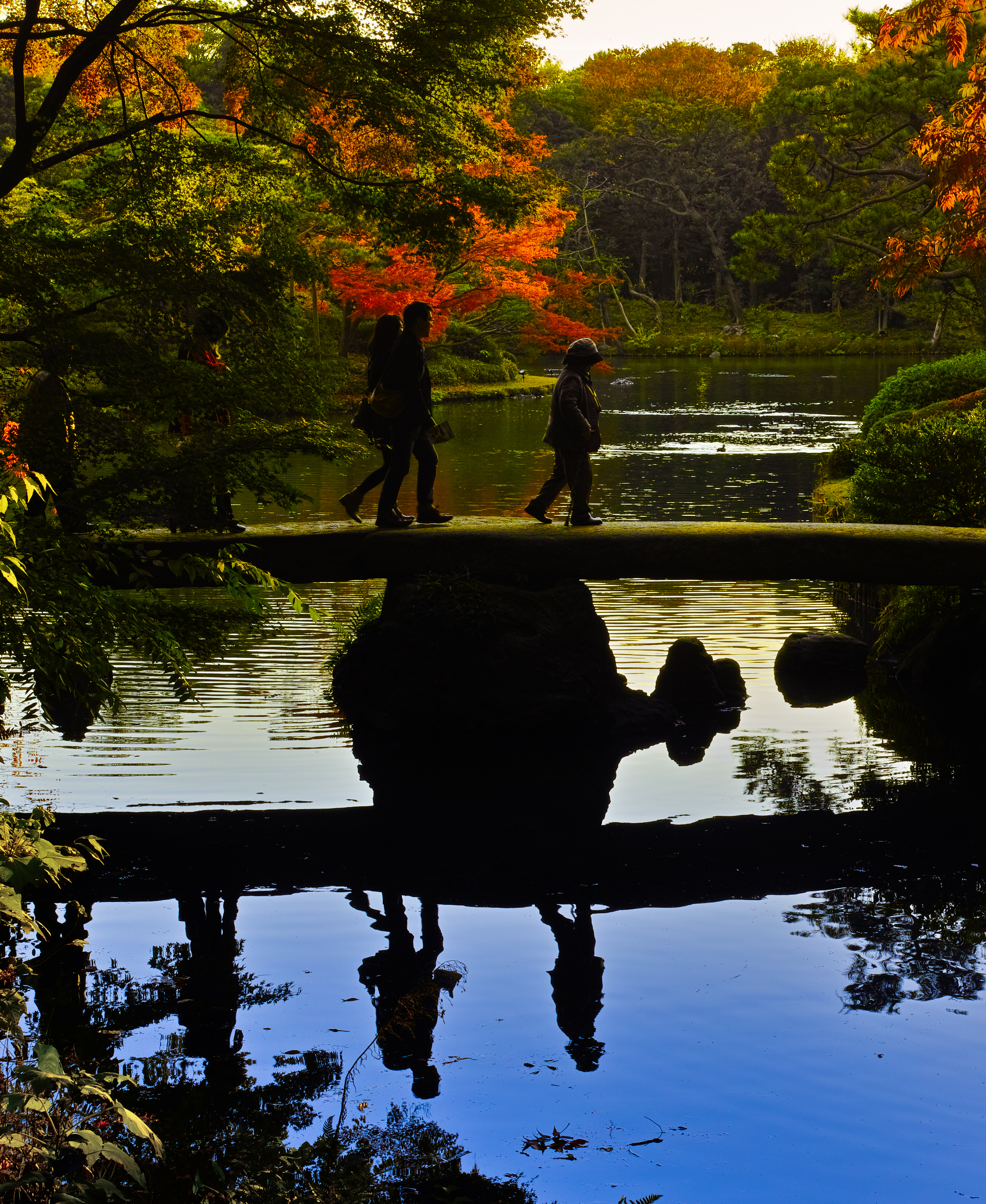 Togetsukyo(Crossing-Moon Bridge) : This stone bridge was named after a famous Waka poem about the scene of the moon moving across the sky with the cry of a crane.